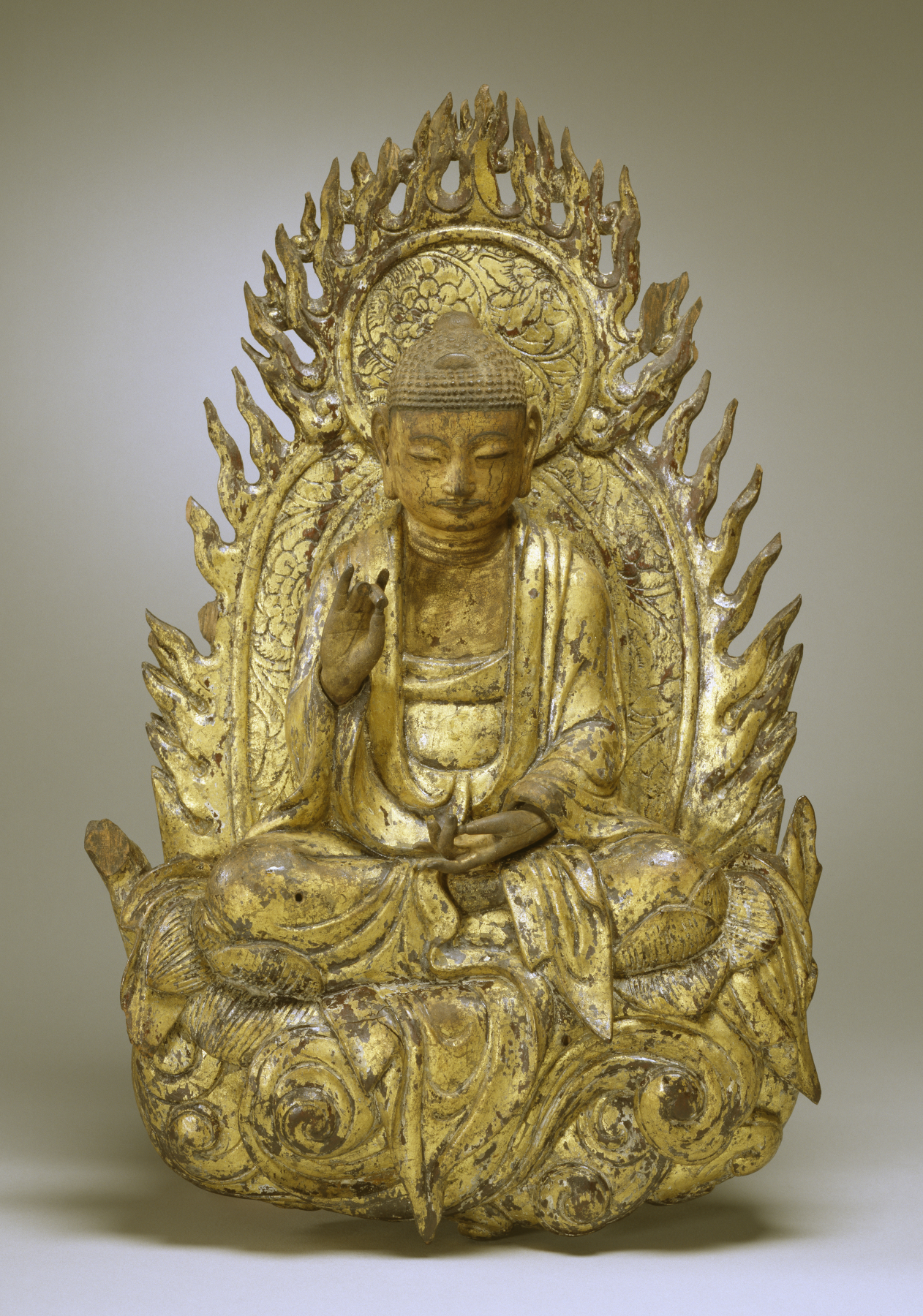 With the asymmetrically arranged ends of his robe falling beneath his lotus throne, and floral scrolls and leaping flames enframing him, the Buddha casts a downward glance. A hollow compartment in the back contains four texts that date from the Choson Dynasty (16th-17th century).